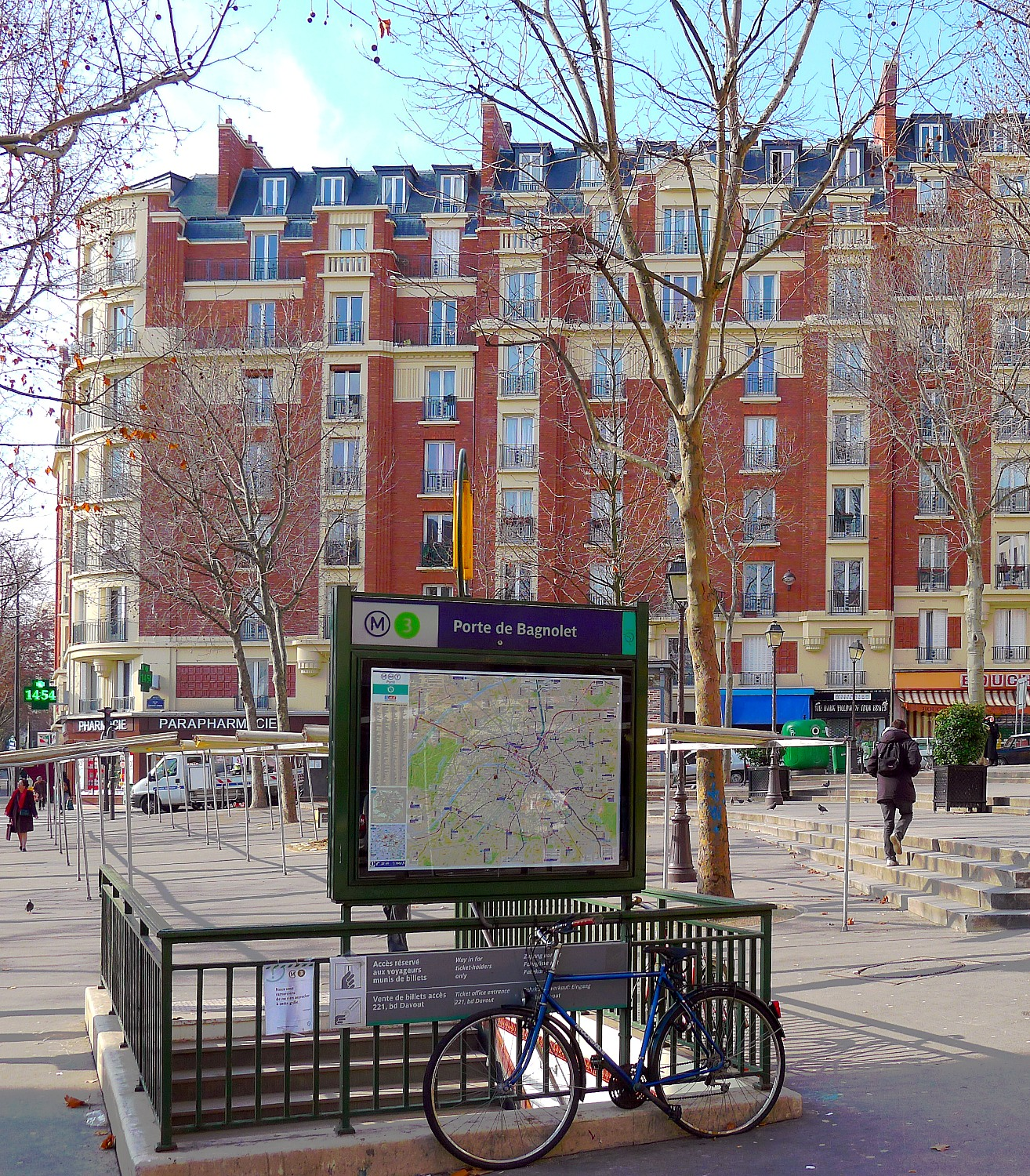 Edith Piaf place - Porte de Bagnolet (metro) - Paris